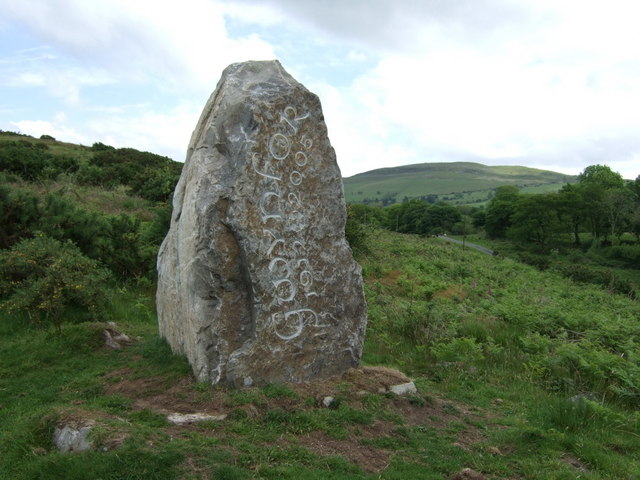 Gwynfor Evans memorial Memorial stone to welsh politician Gwynfor Evans on the approach to Garn Goch hillfort. Carved by Ieuan Rees.